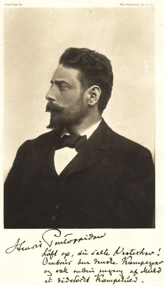 Henrik Pontoppidan (July 24, 1857 – August 21, 1943)